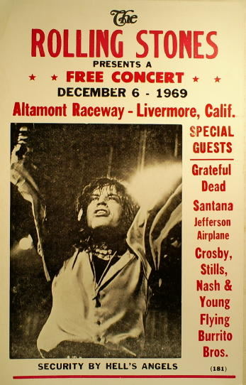 Low resolution image of poster advertising the Rolling Stones' free concert at Altamont Raceway, Livermore, California, December 6, 1969